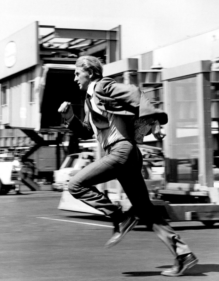 Photo of Lloyd Bridges from the short-lived television drama seriesSan Francisco International Airport. Bridges played the fictional manager of the real-life airport. The episode is "Emergency Alert".